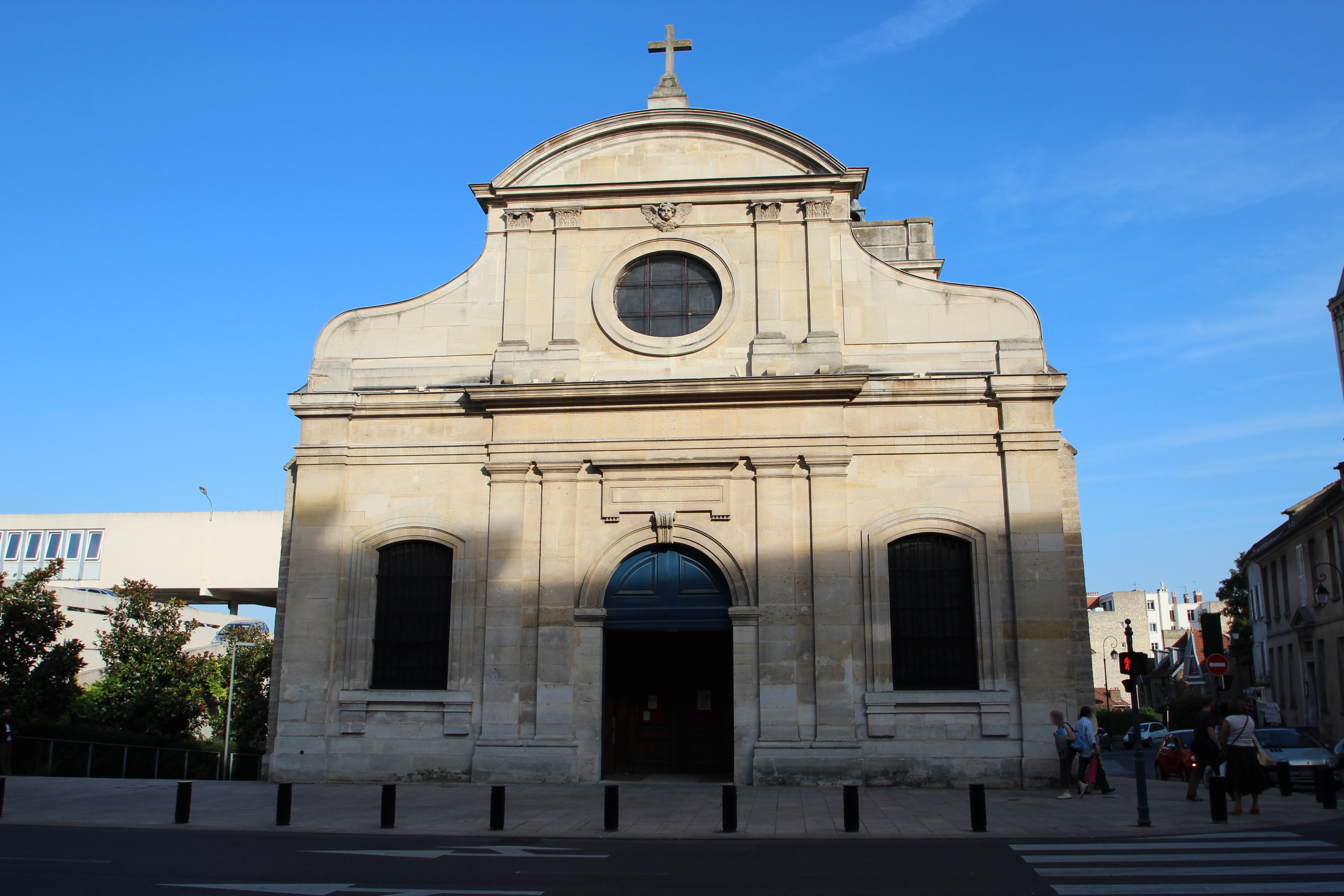 Saint-Martin church in Meudon, France. . Object location48° 48′ 25.77″ N, 2° 14′ 11.04″ E